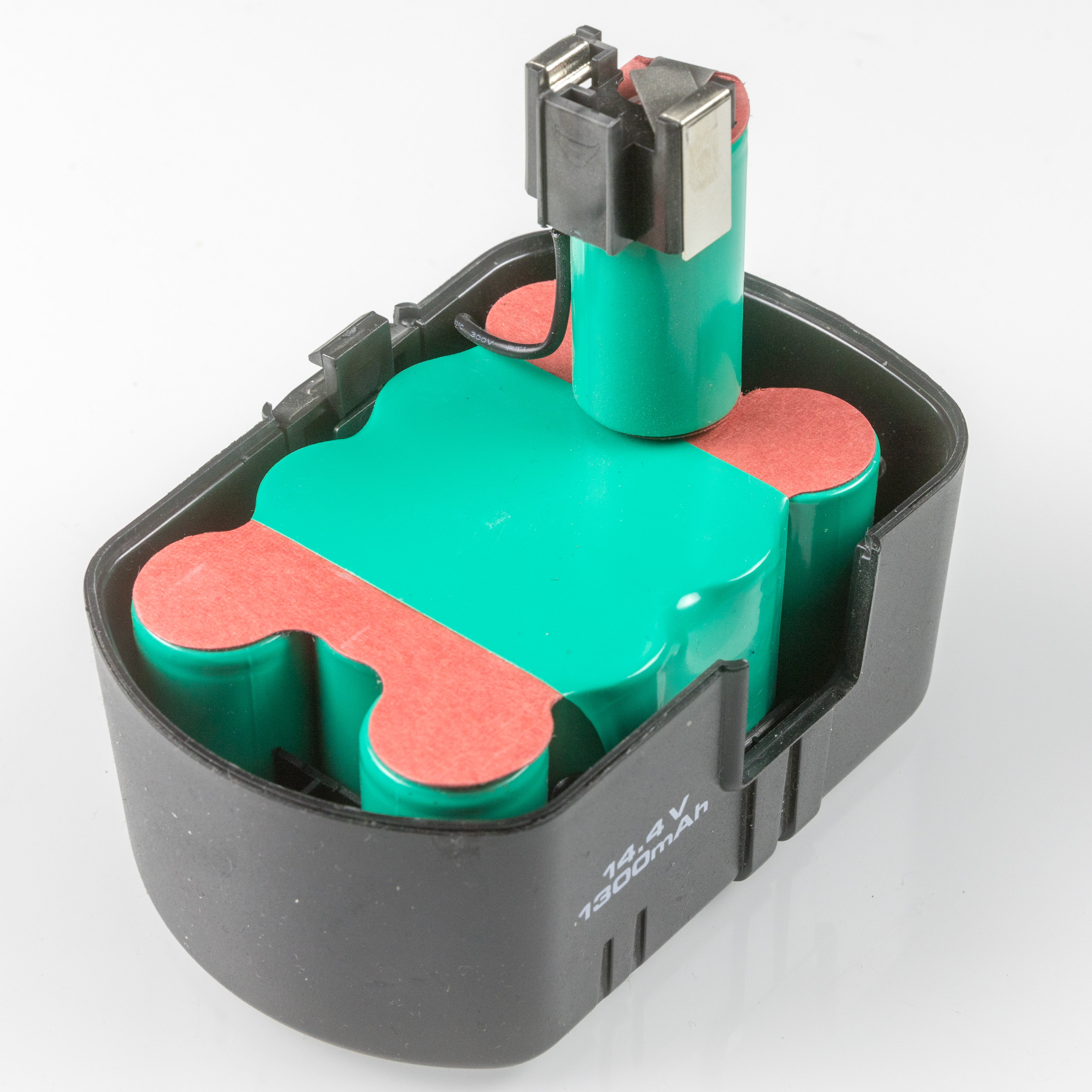 Turbo Akku Vac Easy Home VC 618WP - battery pack NiMH, 14.4V, 1.34Ah